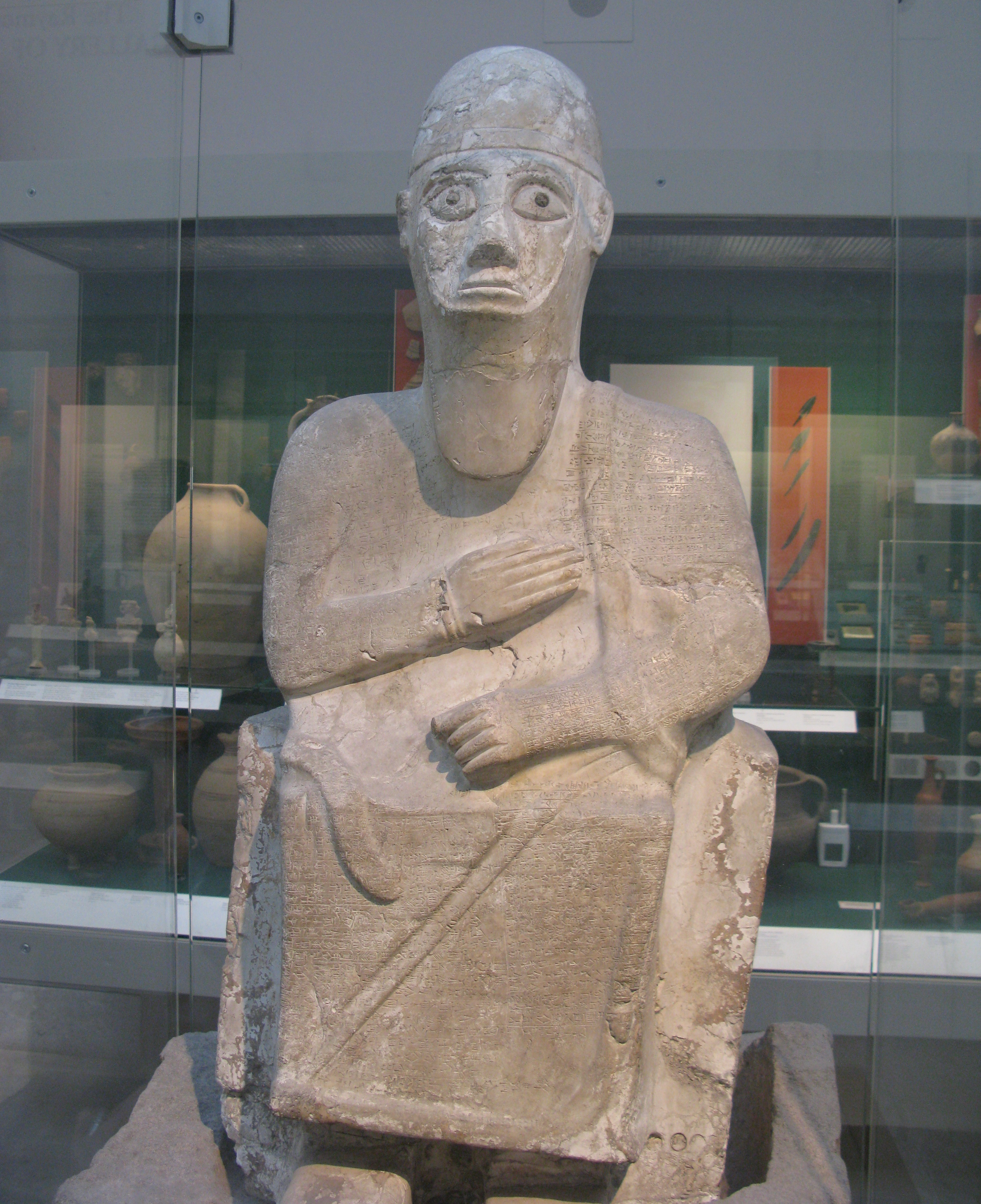 Photo of a statue of Idrimi of Alalakh in the british museam